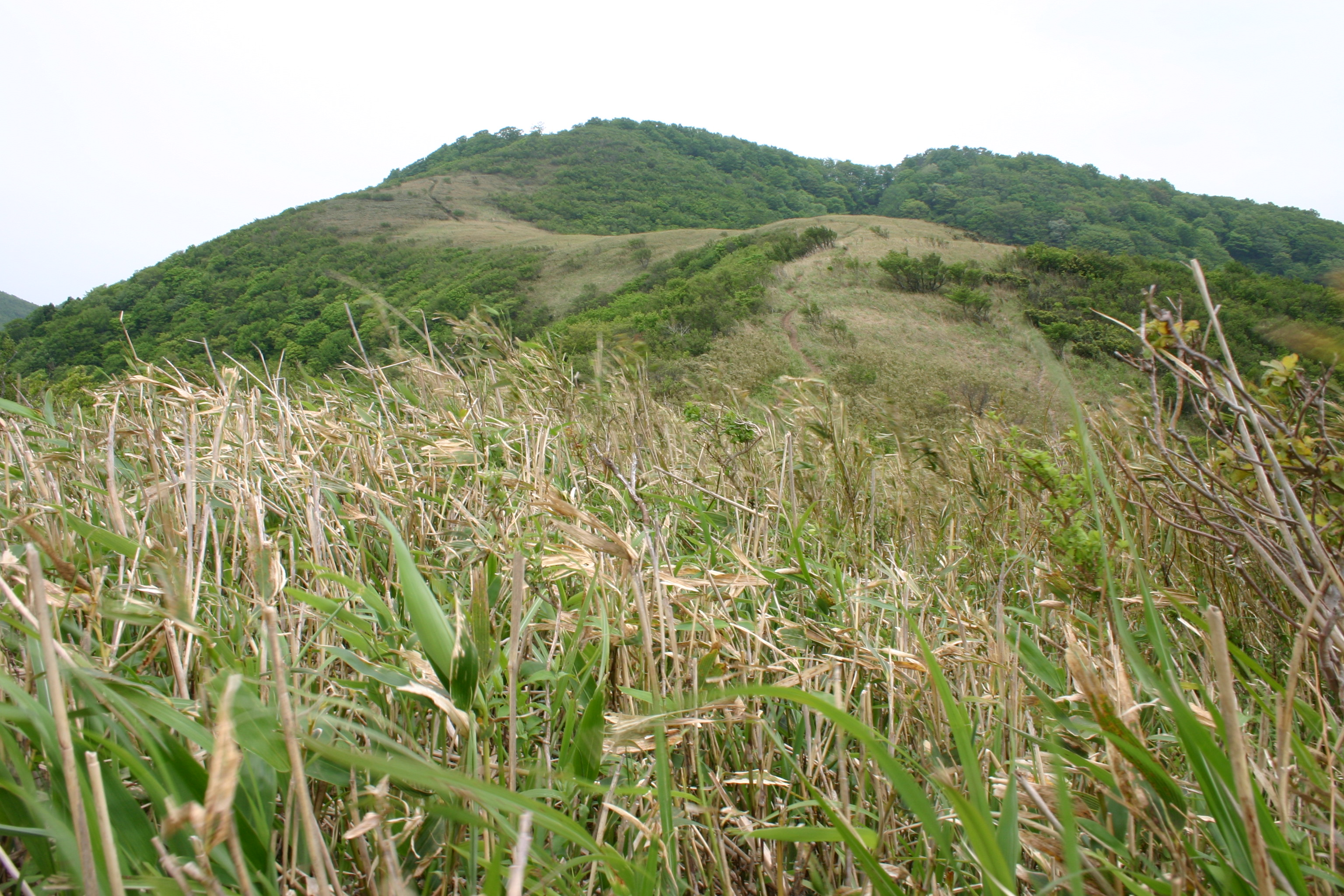 Mt. Sanjyusangen as seen from the southwest ridge.